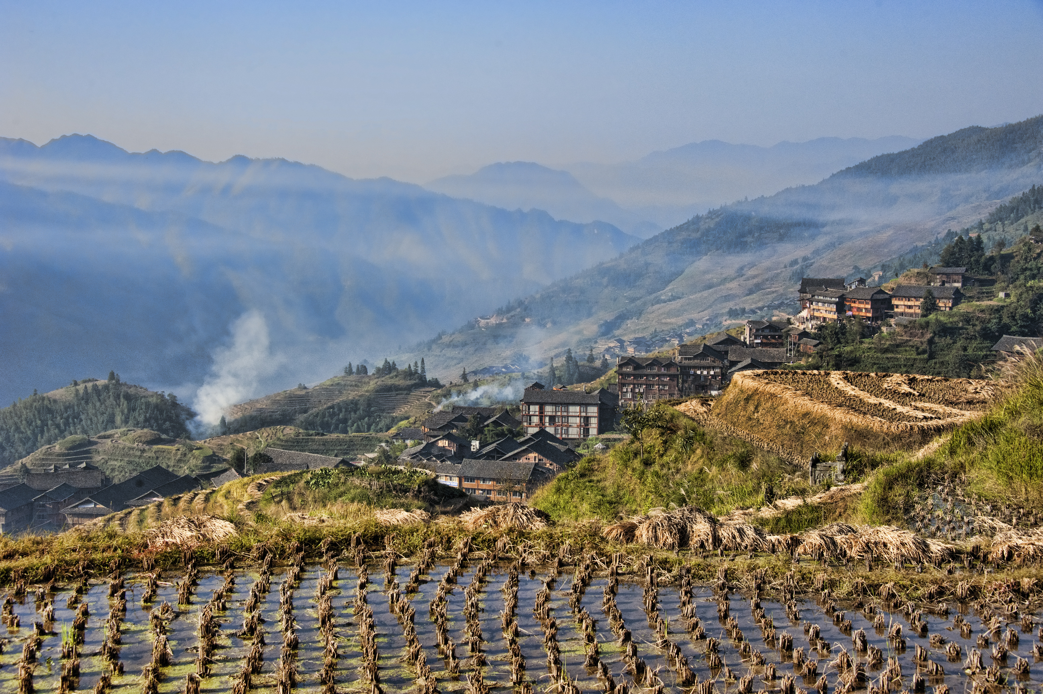 ping an longji rice terrace longsheng china guilin jiu long wu hu 2011